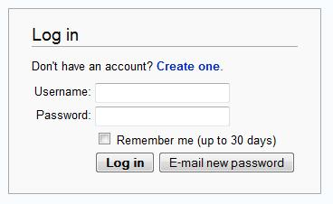 Wikipedia login form.